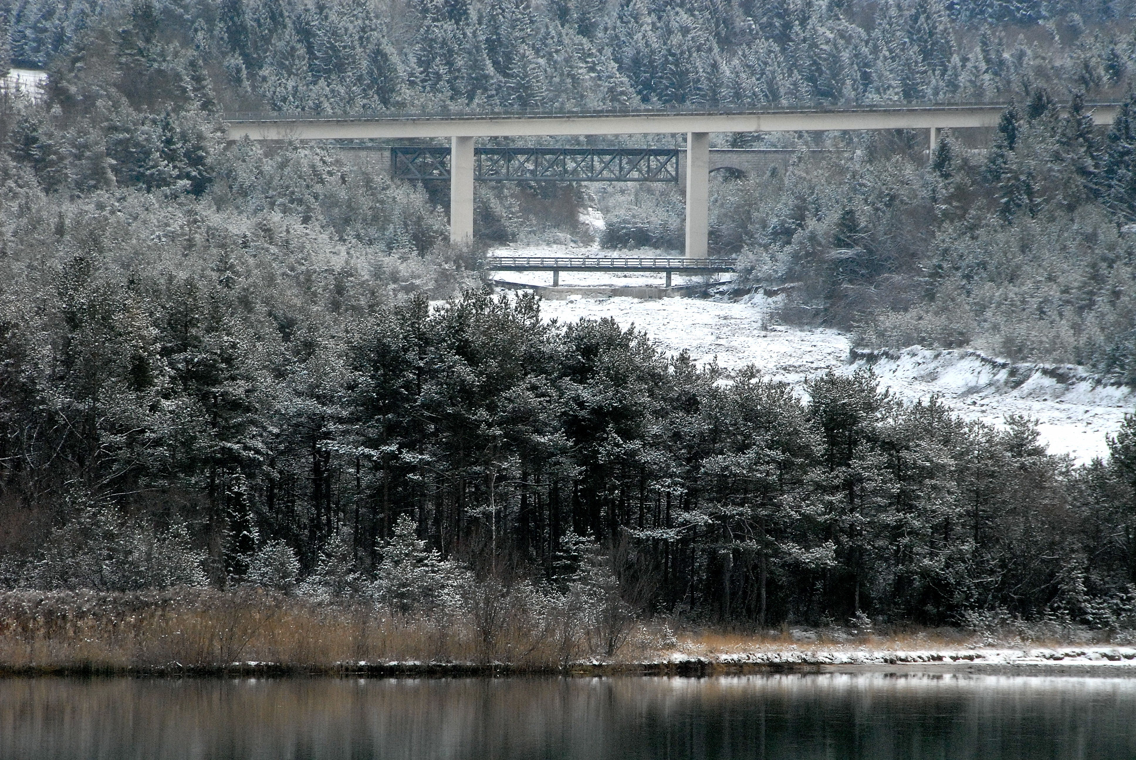 “Sucher” ditch with the three bridges across the river (railroad bridge, road bridge and pedestrian bridge) at Maria Elend in the community Saint Jakob on the valley Rosen, district Villach-Land, Carinthia, Austria